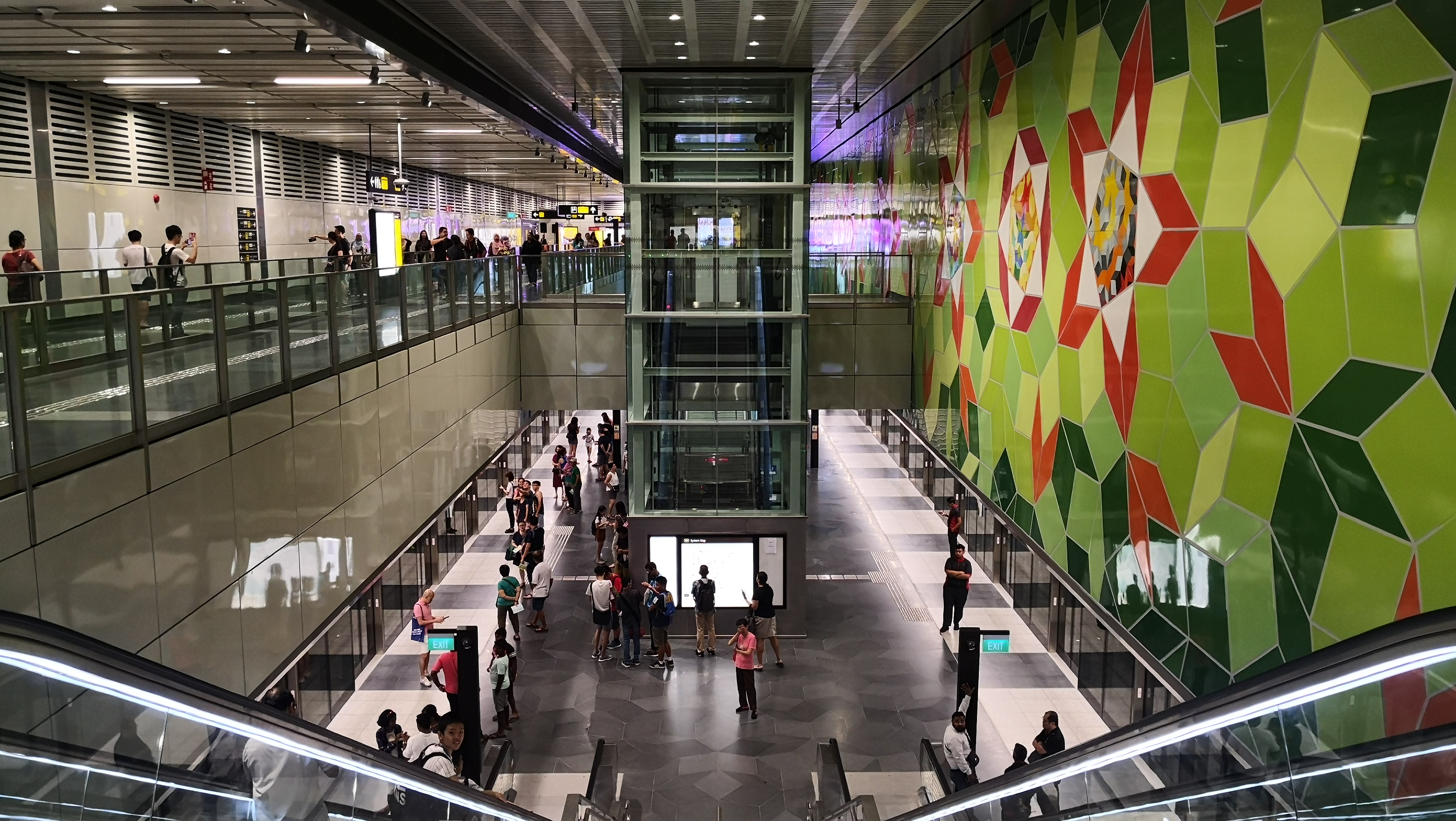 Taken on 11 January 2020 during TEL1 open house